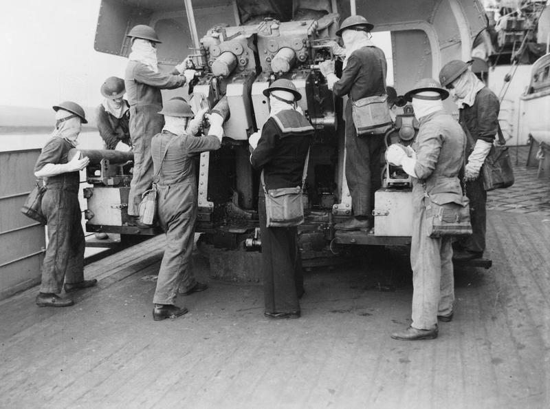 Cruiser Guns' Crews. May 1943, on Board HMS Jamaica and Berwick. 4" guns crew of HMS BERWICK in action.